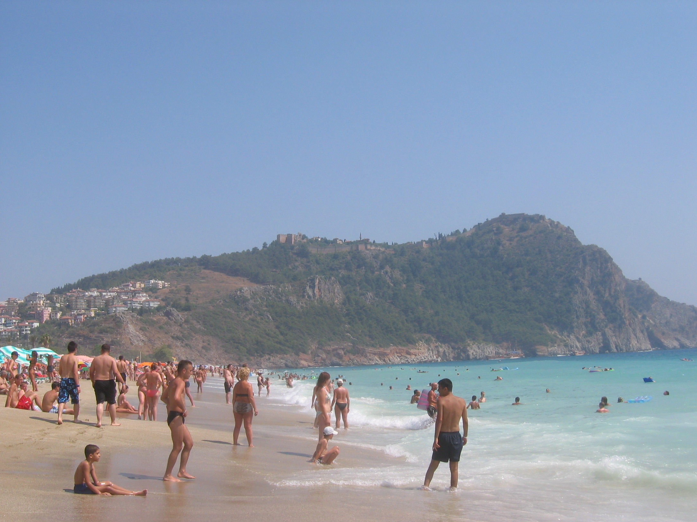 Alanya Castle, view from the north-west side of peninsula.